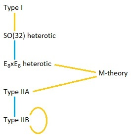 An alternate version of File:StringTheoryDualities.jpg